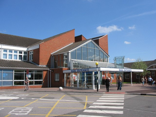 Chesterfield Royal Hospital. This is the general hospital for Chesterfield and North Derbyshire